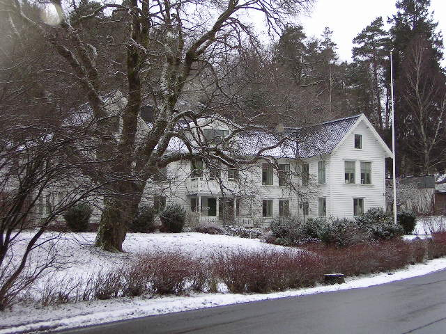 Pixbo mansion, Härryda Municipality, Sweden